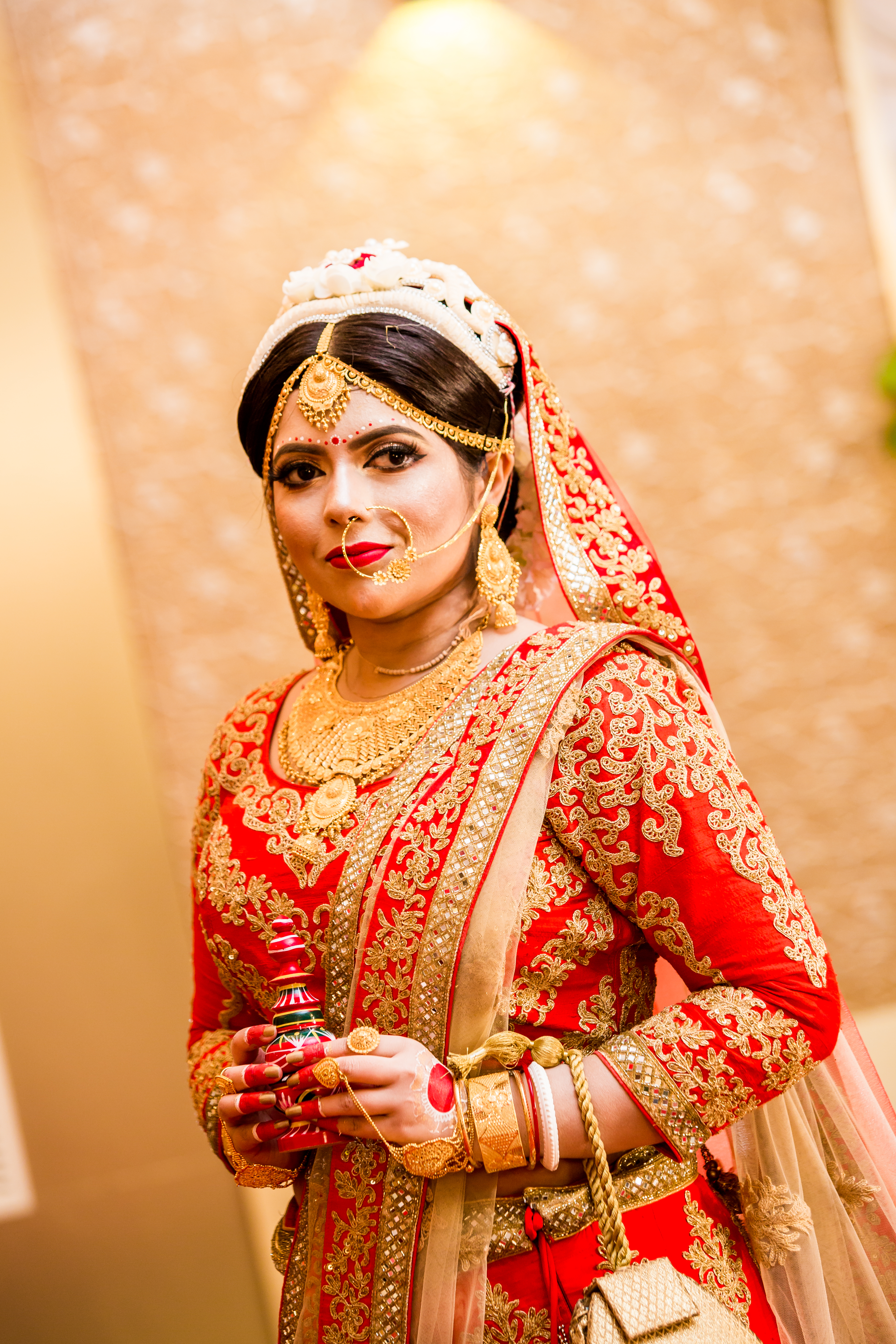 Hindu Bride